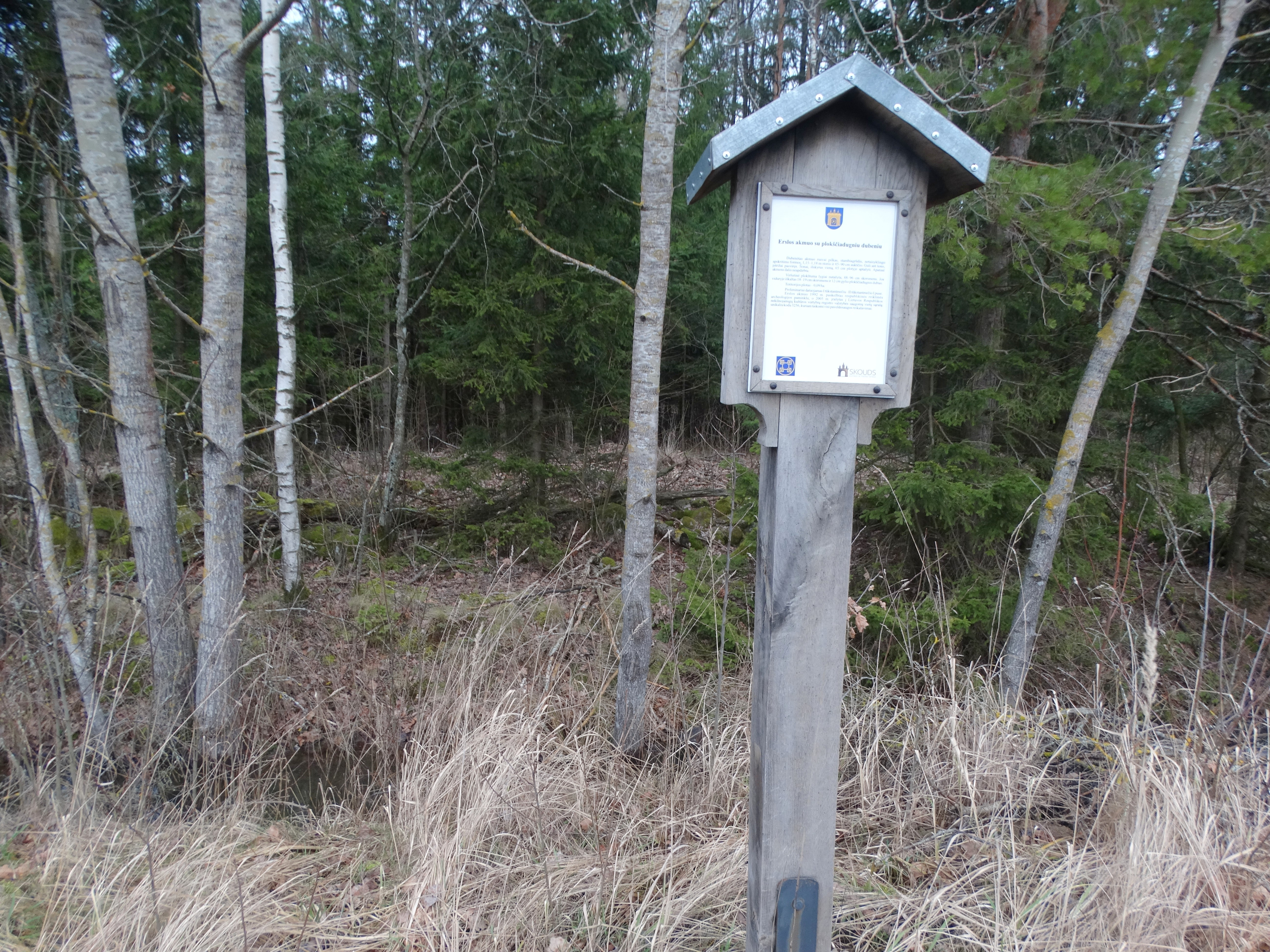 Ersla stone with bowl (information), Skuodas District, Lithuania